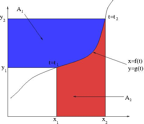 Visualization of the integration by parts